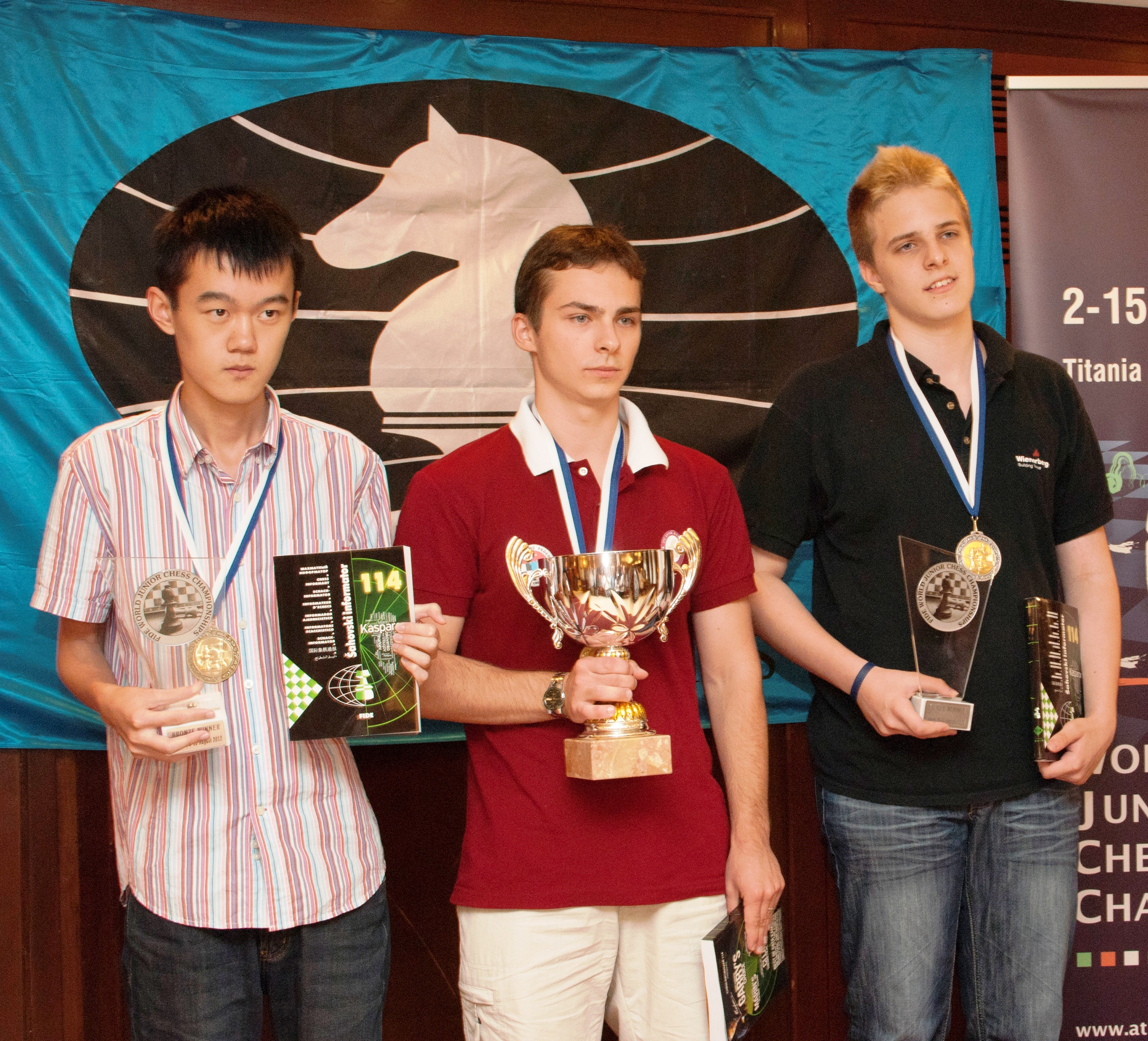 WChJ Athens 2012 - The Mens' podium: (from left) Ding Liren (bronze), Alexander Ipatov (gold), Richard Rapport (silver).